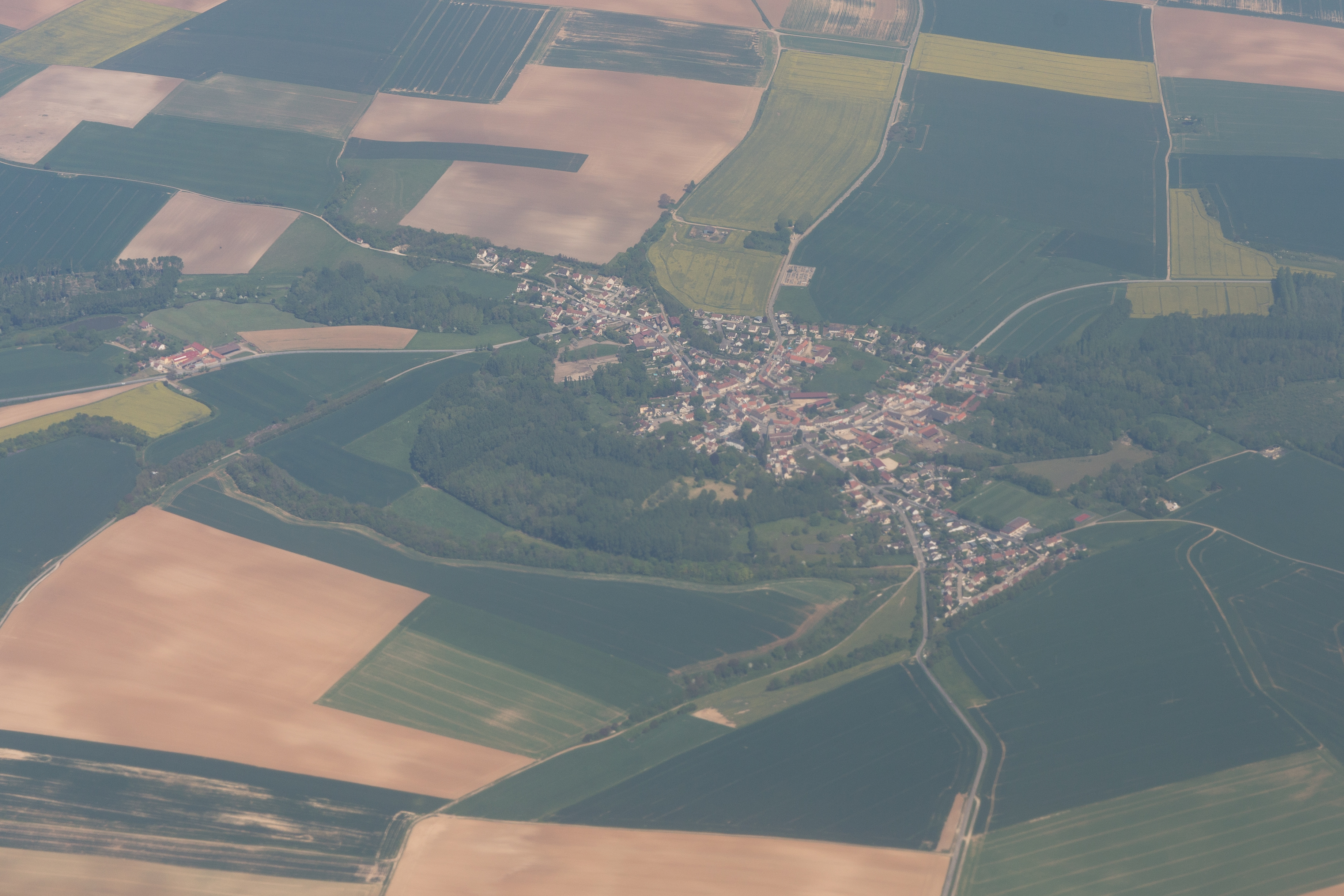 Aerial view of Étrépilly during a flight between CDG and VIE.